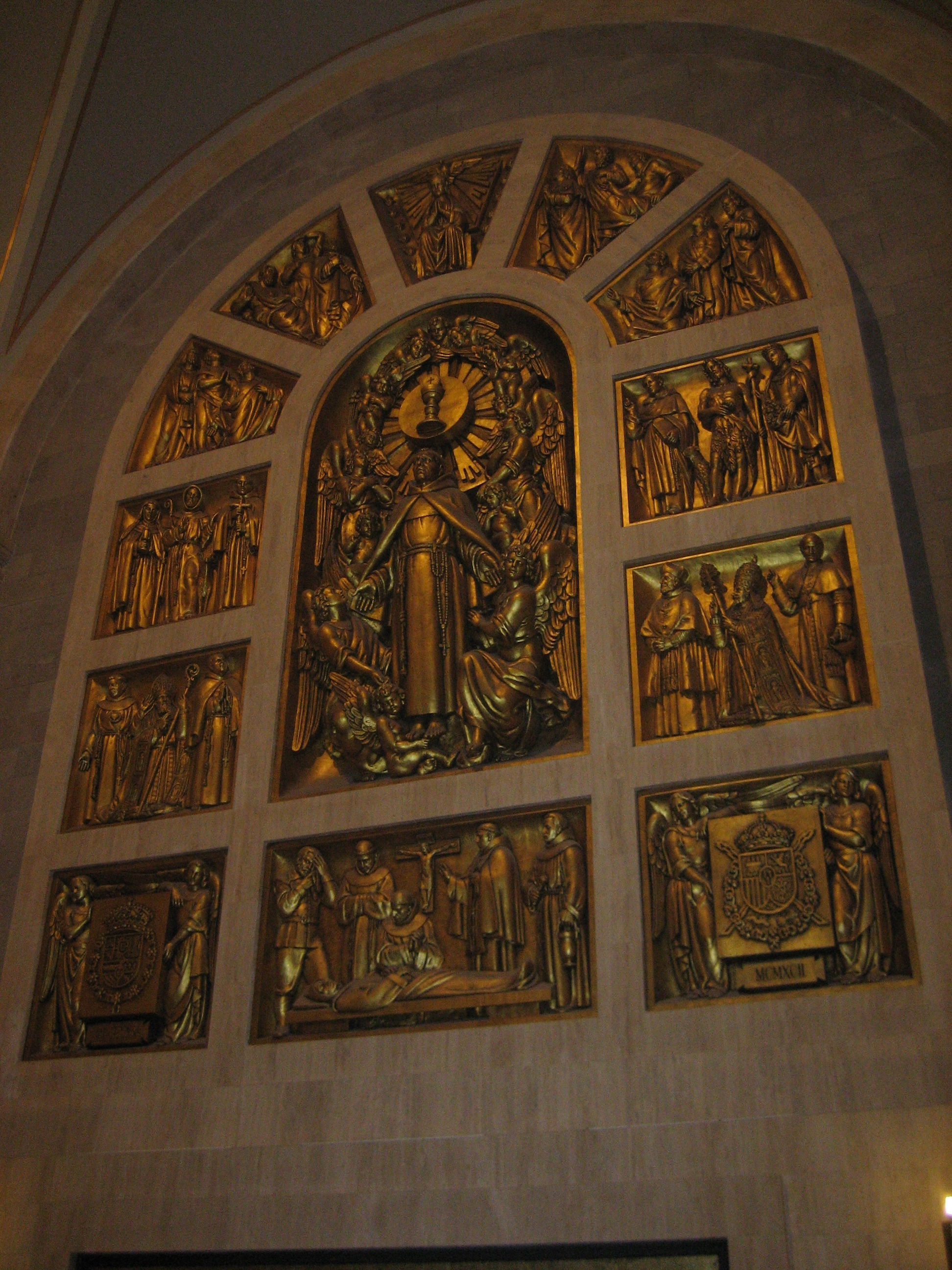 St. Paschal altarpiece at Royal Chapel in the sanctuary of Vila-real, made by Lloréns Poy